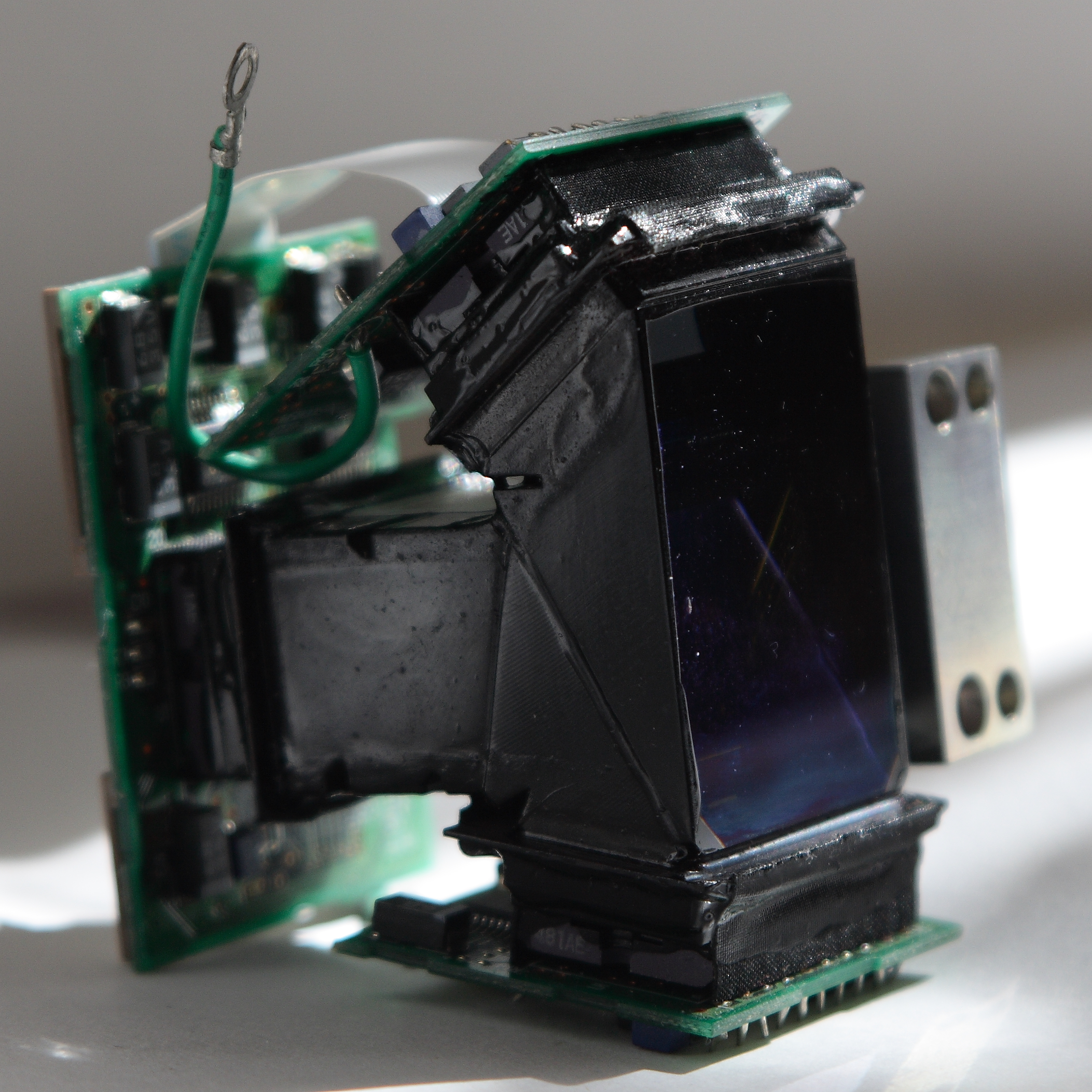 An imaging block for broadcast camera consisting of a colour separation prism of Philips type and 3 pieces of 2/3-inch CCD image sensors.